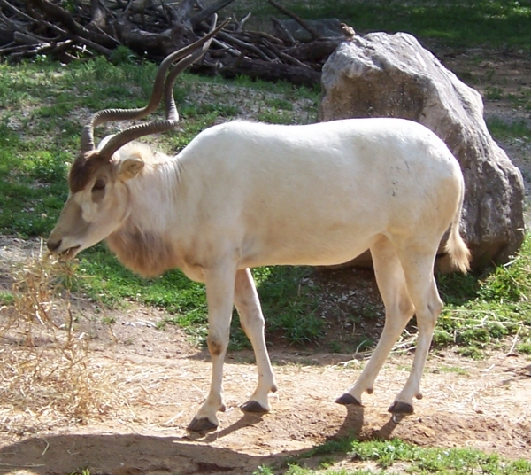 Addax at the Louisville Zoo in Kentucky.